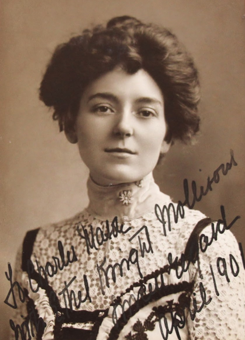 Ethel Knight Mollison later the wife of Thomas Herbert Kelly owner of Gladswood House, Double Bay, NSW